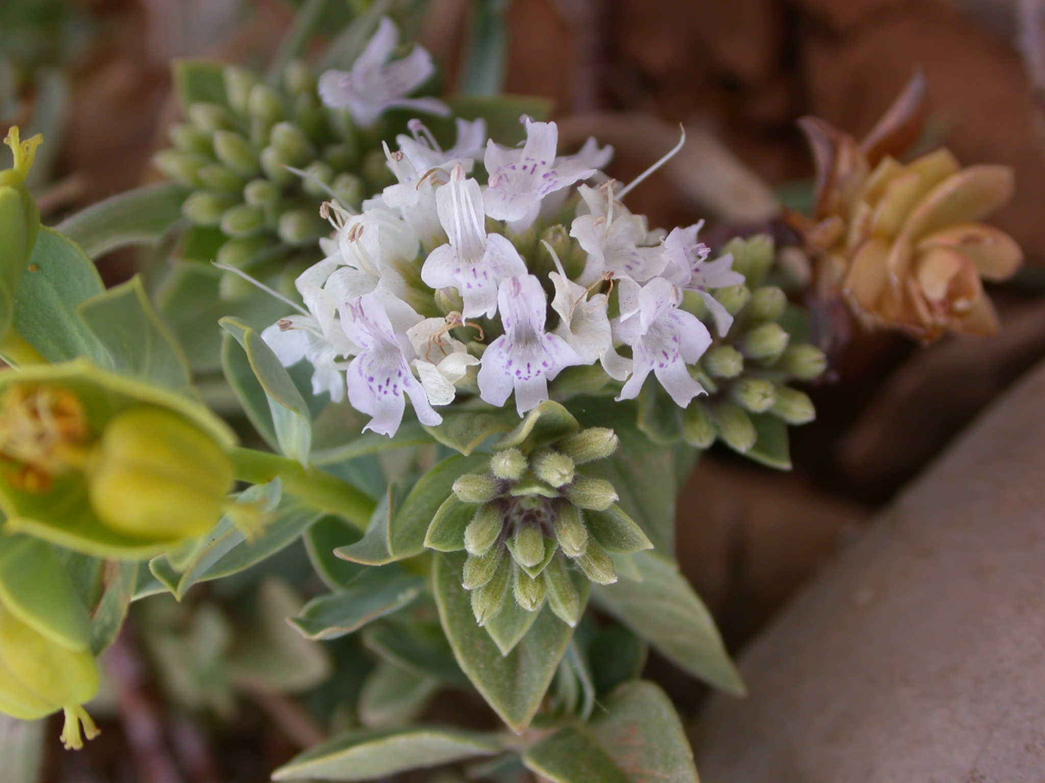 Ziziphora clinopodioides Lam. (אבובית החרטומים), Mount Hermon, Israel, June 14, 2006. Other names: Ziziphora canescens Benth.